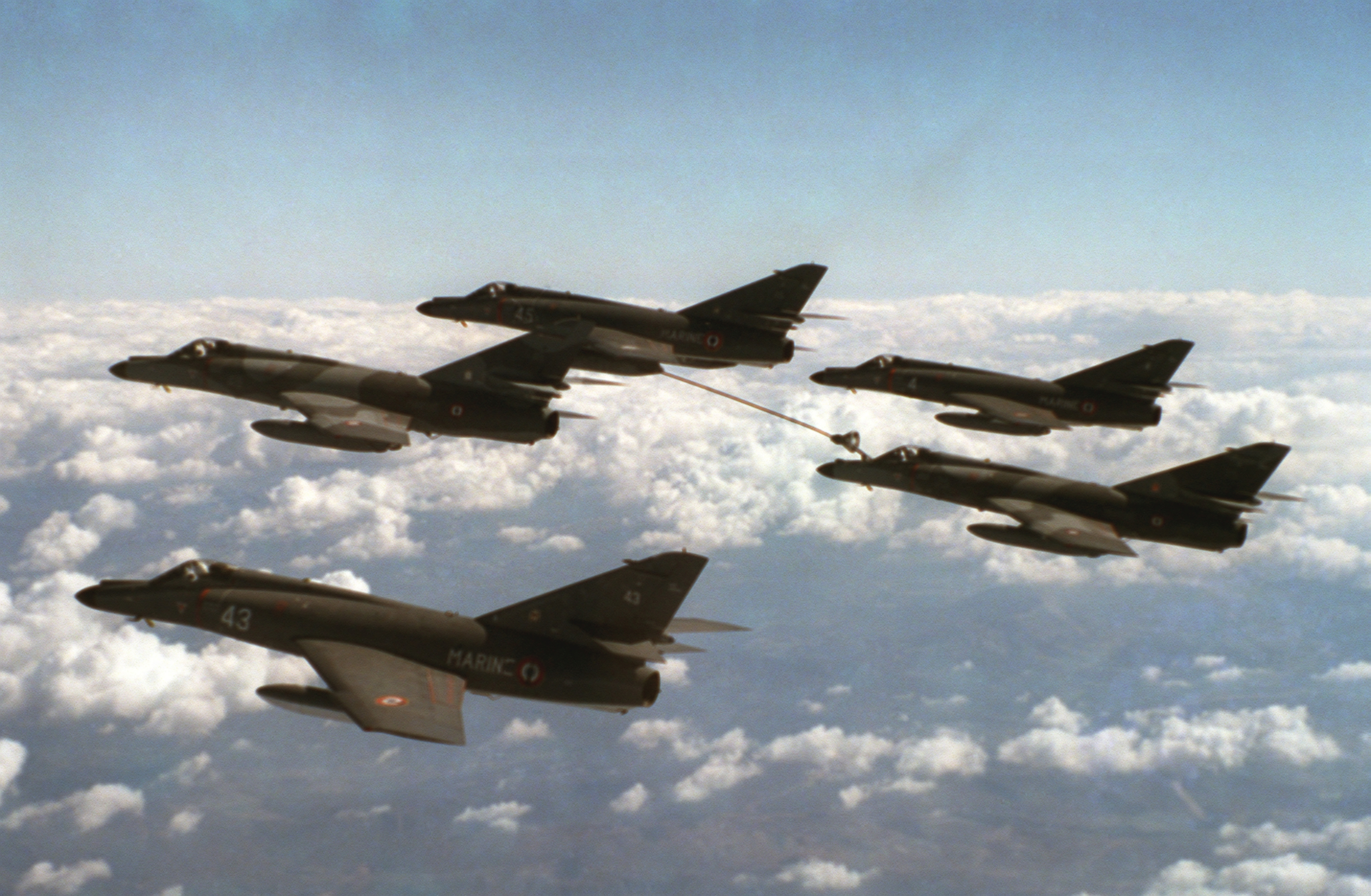 Five French Aéronavale Dassault Super Étendard in flight during exercise "French Quarter '88".